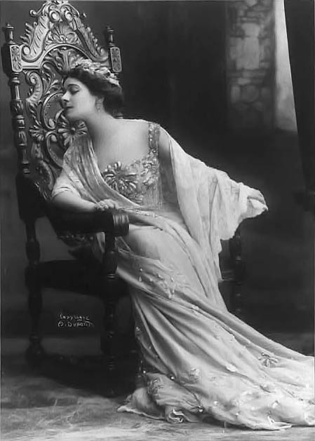 Alla Nazimova, 1879-1945, actress, full length portrait, seated in chair, facing left.